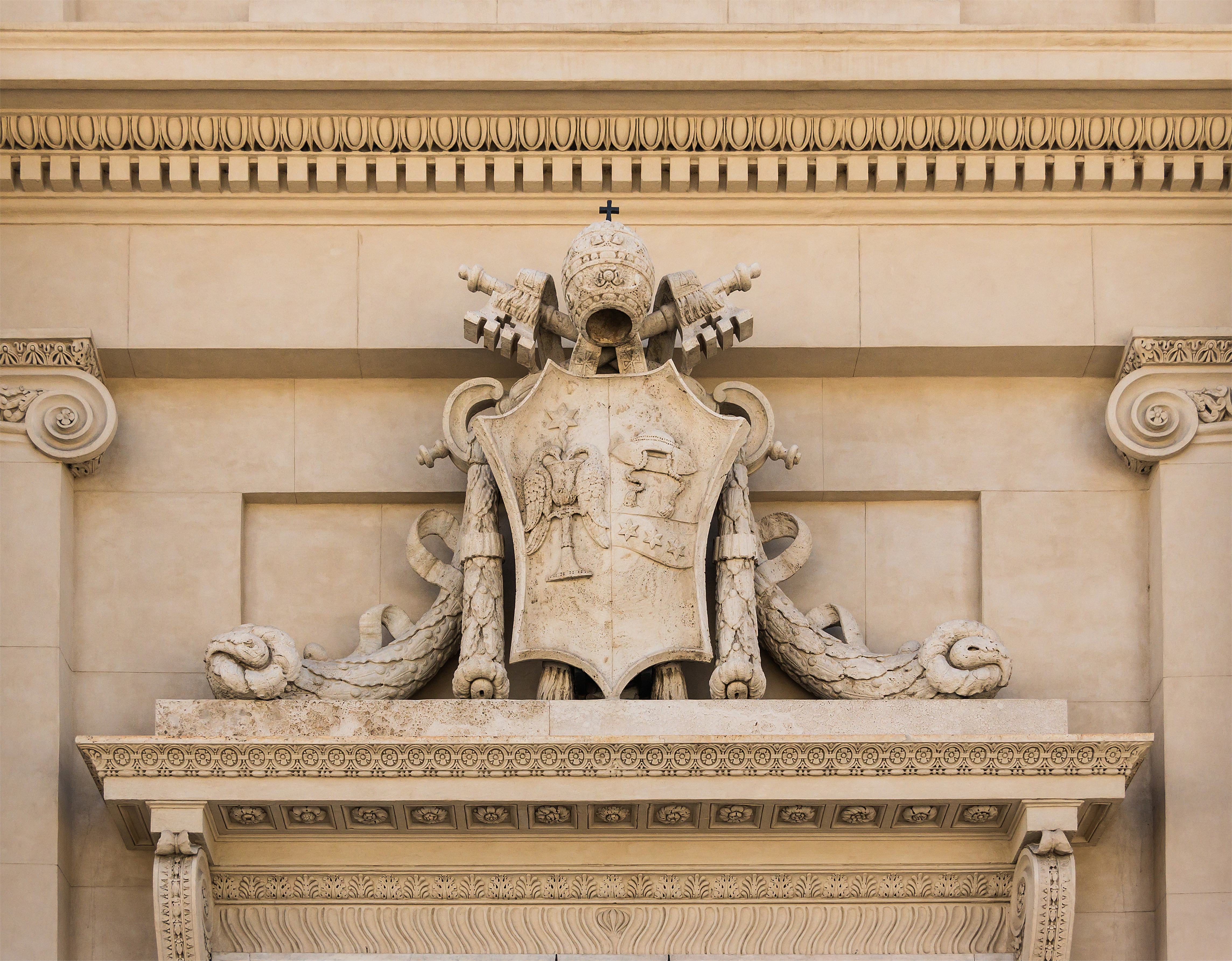 The CoA of pope Gregorius XVI, church san Rocco, Rome, Italy.